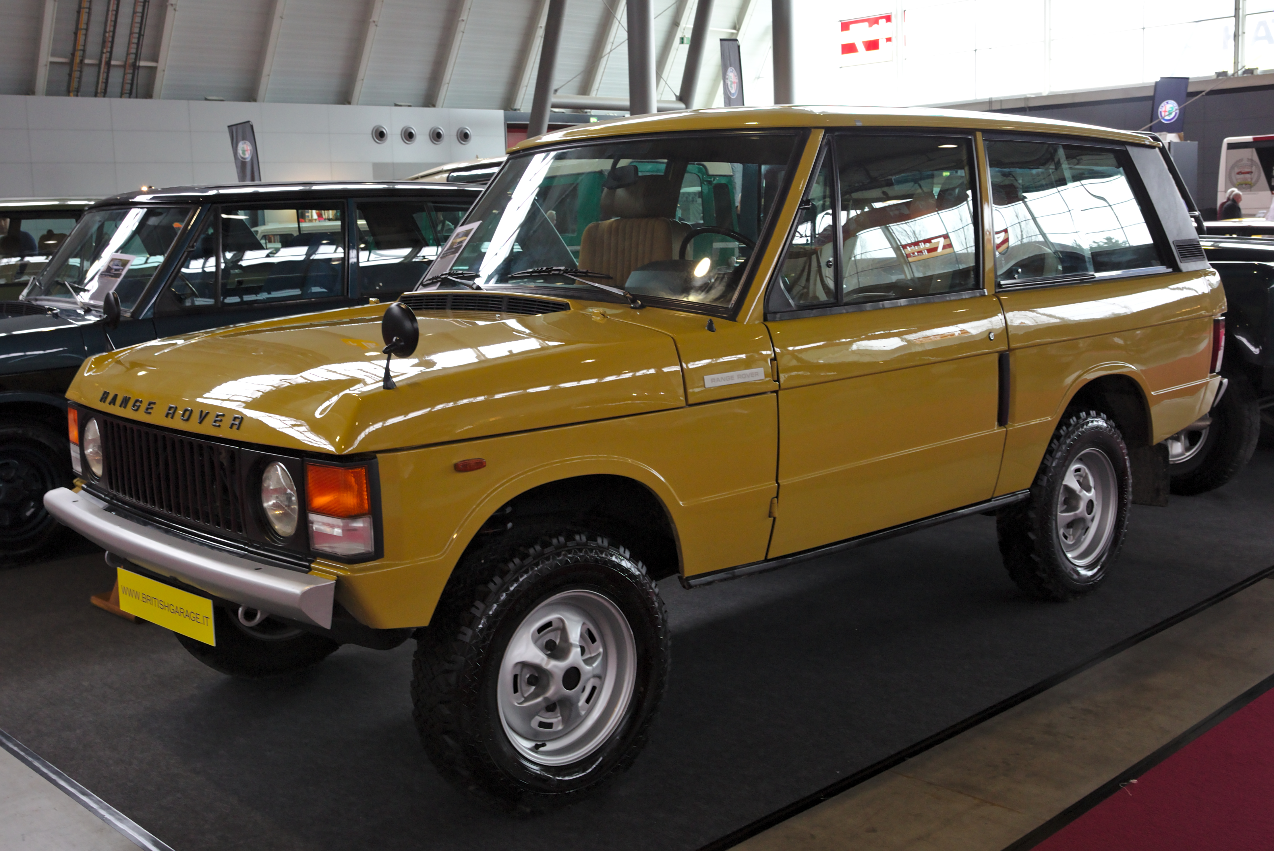 Range Rover at Retro Classics 2018